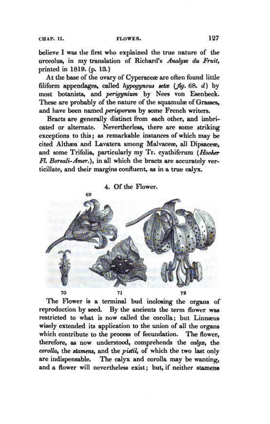 Types fo flowers. Page 127 of An introduction to botany by John Lindley etc. Second edition, with corrections and numerous additions. Longman, Rees, Orme, Brown, Green and Longman, 1835. 833 pp.